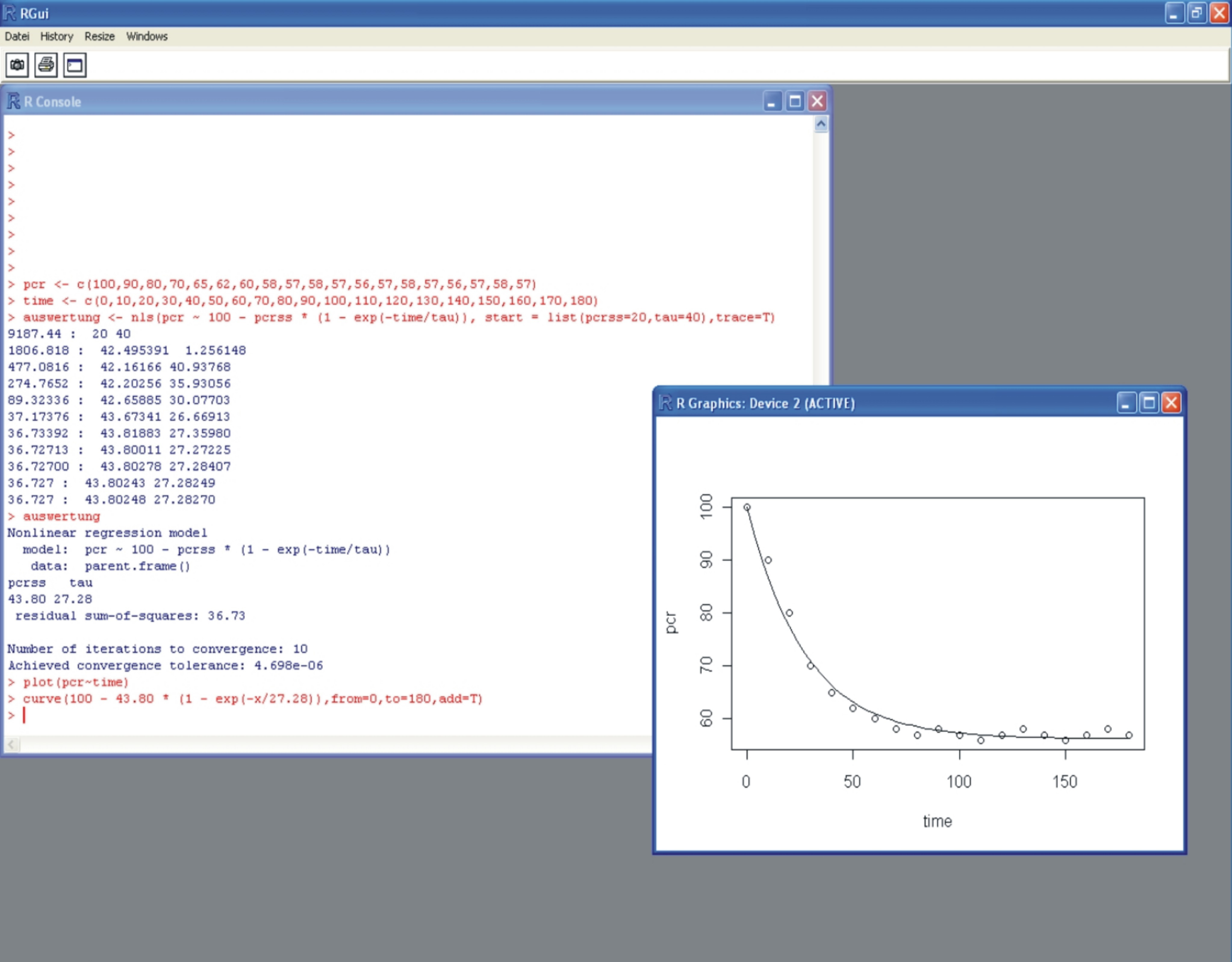 Screenshot of an example for a non-linear regression analysis derived from changes in phosphocreatine due to muscle exercise by using R